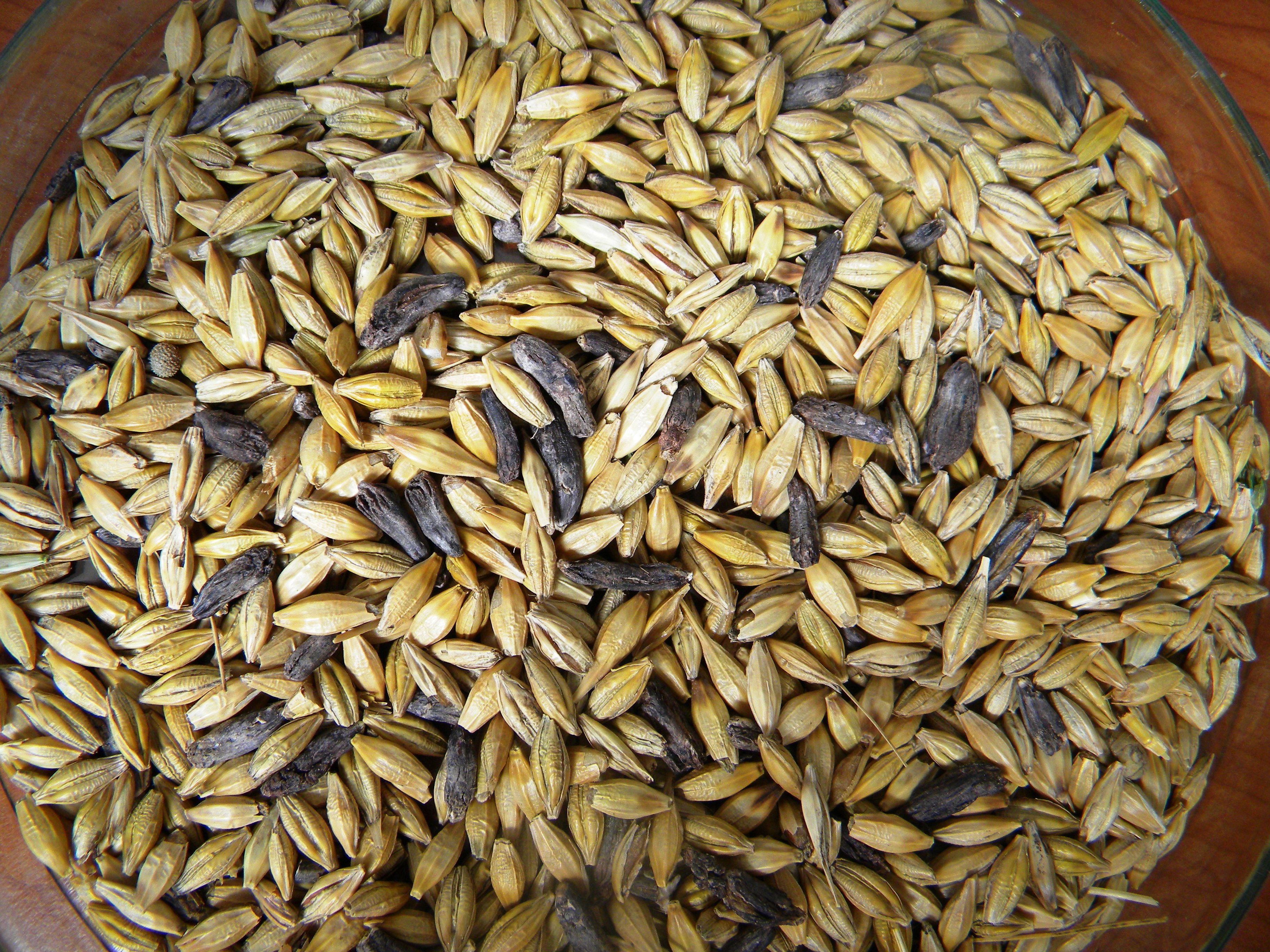 Hordeum vulgare (barley) with Claviceps purpurea